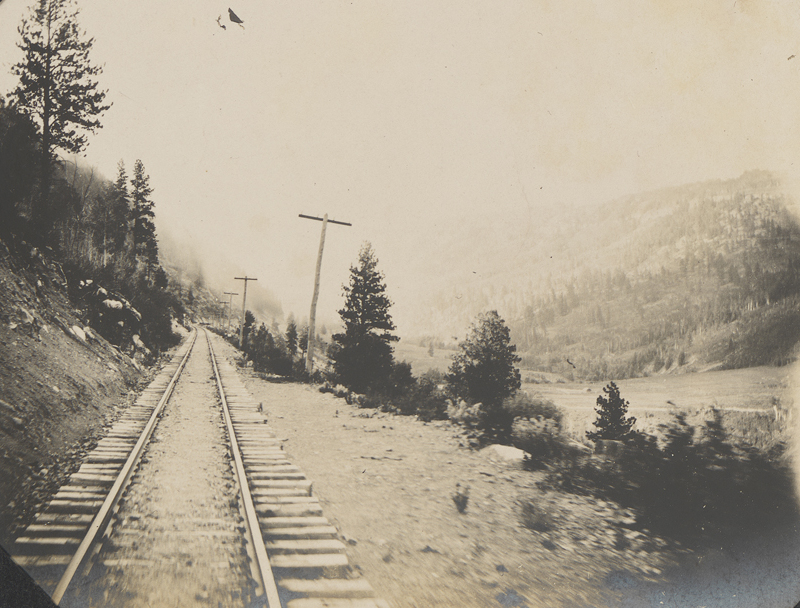 Title: [Railroad Tracks] Creator: Unknown Date: 1902 Part Of: Description: This is one of 287 photographs in an album entitled, 'Tourist Album: Mexico, Arizona, California, Colorado and Utah.' Physical Description: 1 photographic print: gelatin silver, part of 1 album (287 gelatin silver prints); 10 x 13 cm on 28 x 35 cm mount File: ag2000_1304_89a_3_opt.jpg Rights: Please cite DeGolyer Library, Southern Methodist University when using this file. A high-resolution version of this file may be obtained for a fee. For details see the web page. For other information, . For more information and to view in high resolution, View the